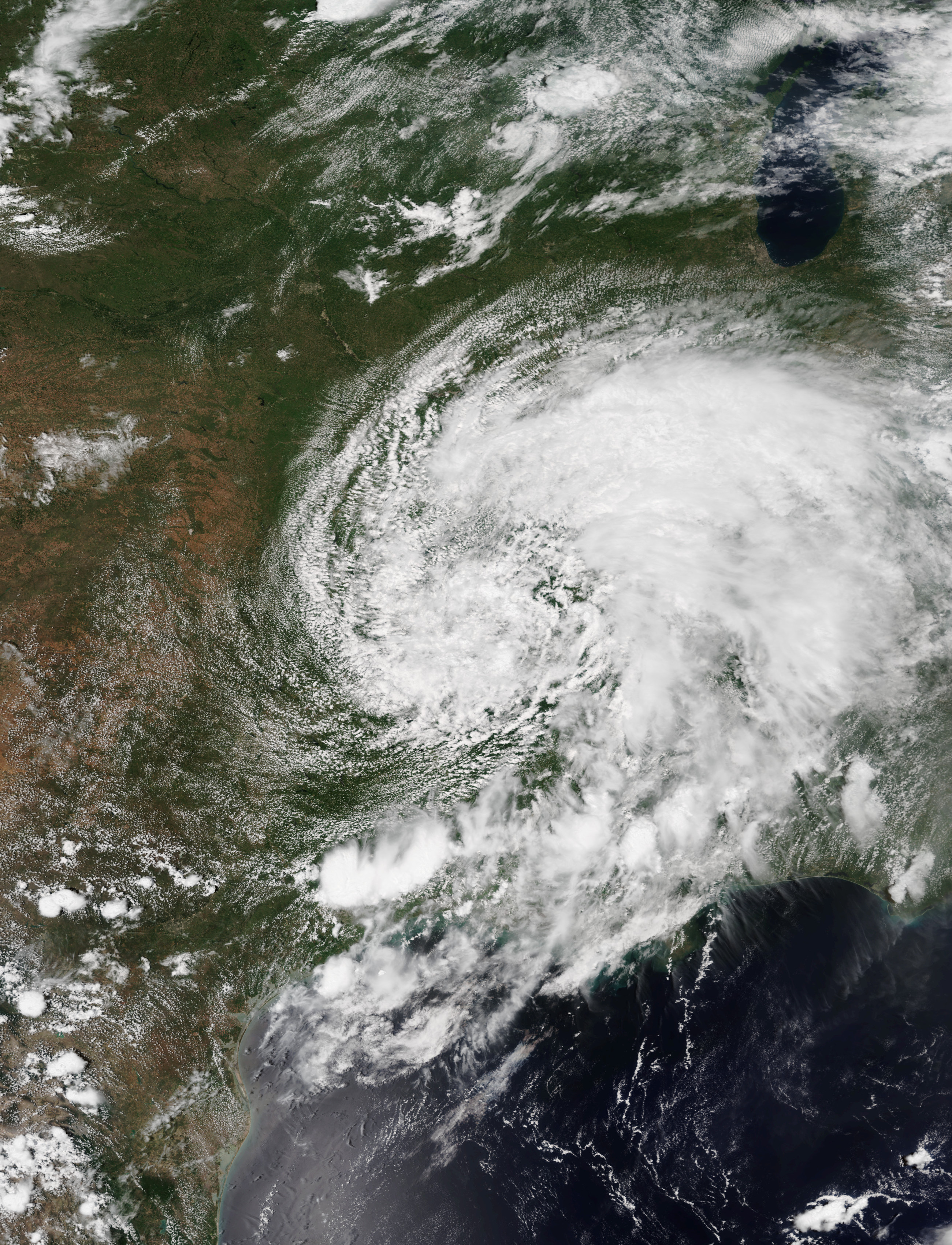 Tropical Depression Barry weakening over Arkansas on July 15, 2019